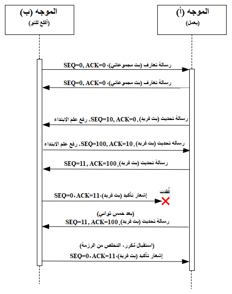 Sequence diagram fro Neighbor discovery in EIGRP. (1) Router A sends a multicast HELLO and Router B discovers it. (2) Router B sends an expedited HELLO and starts the process of sending its topology table to Router A. In addition, Router sends the NULL UPDATE packet with the INIT-Flag. The second packet is queued, but it cannot be sent until the first is acknowledged. (3) Router A receives the first UPDATE packet and processes it as a DUAL event. If the UPDATE contains topology information, the packet will be processed and stored in a topology table. Router B sends its first and only UPDATE packet with an accompanied ACK. (4) Router B receives UPDATE packet 100 from Router A. Router B can dequeue packet 10 from A's transmission list since the UPDATE acknowledged 10. It can now send UPDATE packet 11 and with an acknowledgment of Router A's UPDATE. (5) Router A receives the last UPDATE packet from Router B and acknowledges it. The acknowledgment gets lost. (6) Router B later retransmits the UPDATE packet to Router A. (7) Router A detects the duplicate and simply acknowledges the packet. Router B dequeues packet 11 from A's transmission list, and both routers are up and synchronized.